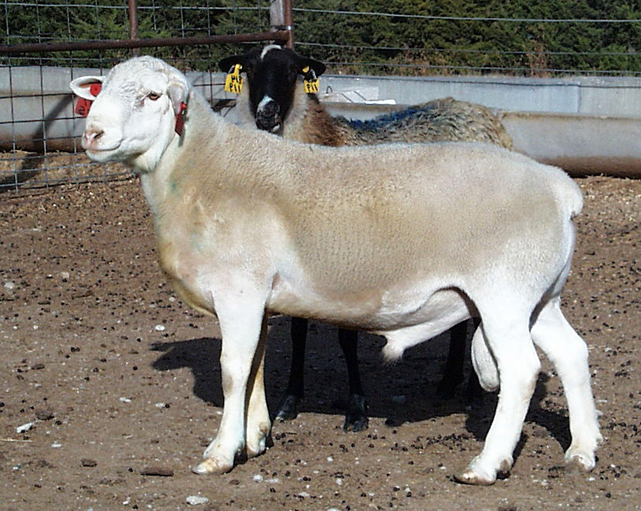 Sheep that produce hair (like this Dorper ram, in the foreground) instead of wool don't need shearing, an expensive, labor-intensive process. Elimination of shearing may increase profits for producers interested in producing meat rather than wool. Behind the Dorper ram in the photo is a Romanov ewe.